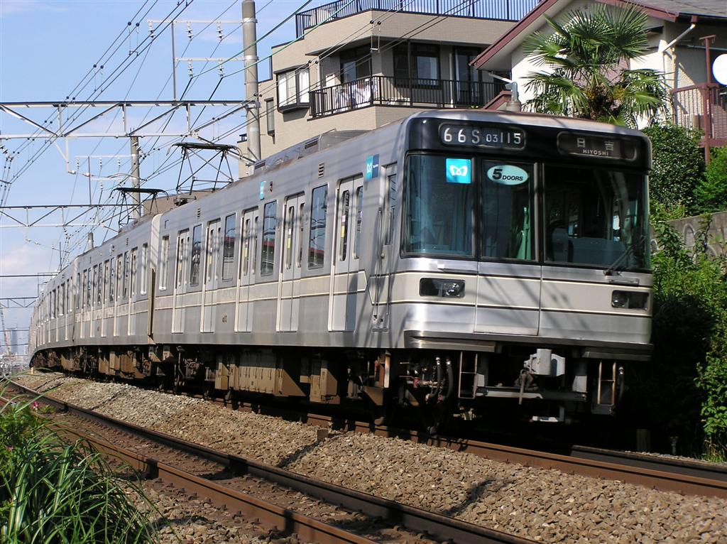 I don't understund English. I can use Japanese only. Sorry. Date taken（撮影日） 2006/8/19 Taken human（撮影者） Ichikawa Taichi （市川太一） Place of photo（撮影地） 都立大学～自由が丘 Description（内容） 03-115F Not Cropped（非トリミング） Released to Public Domain so all free to use.